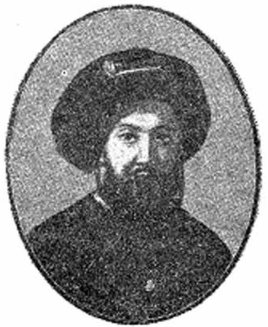 Serezli Yusuf Muhlis Paşa